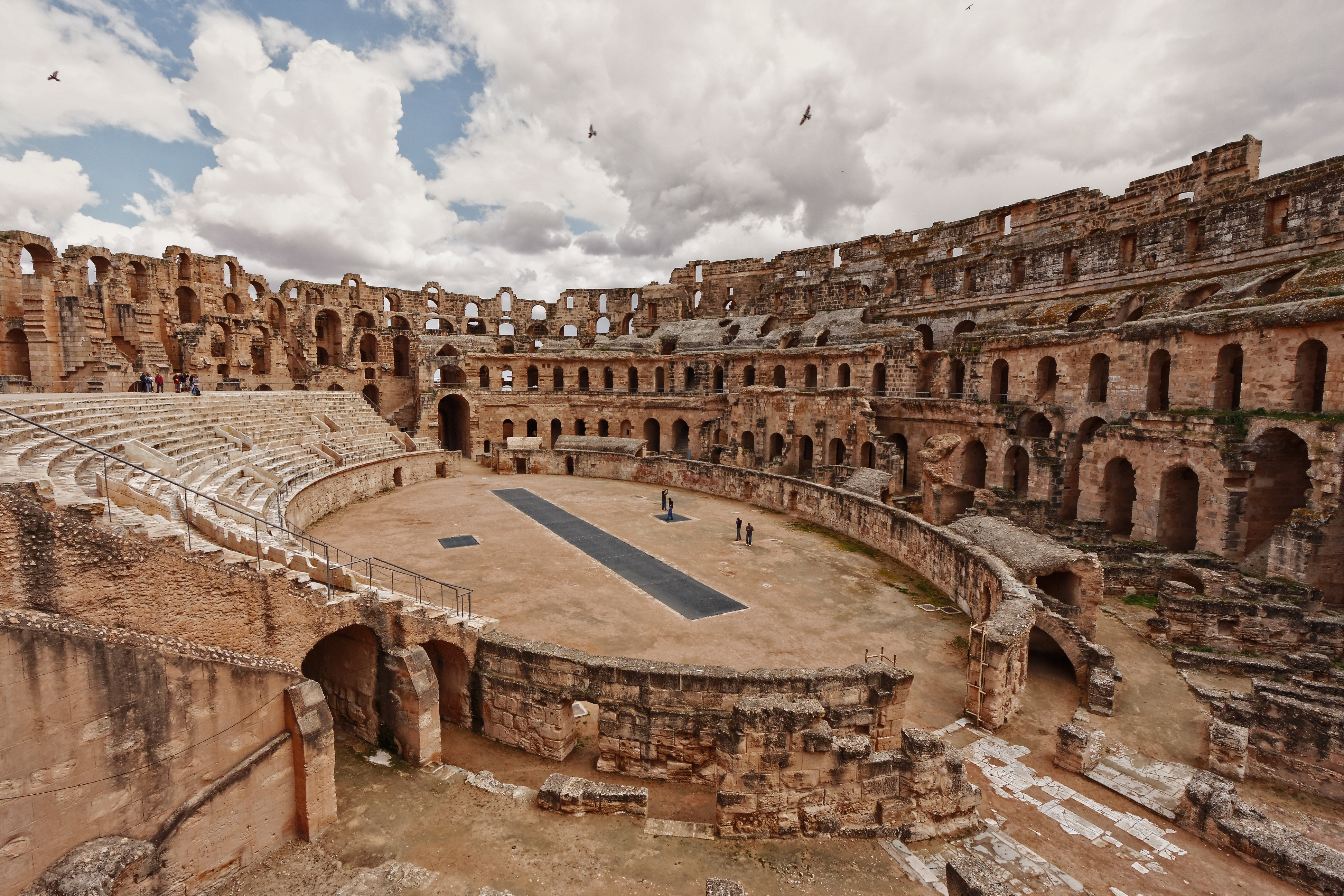 Roman theater in El Djem, Tunisia